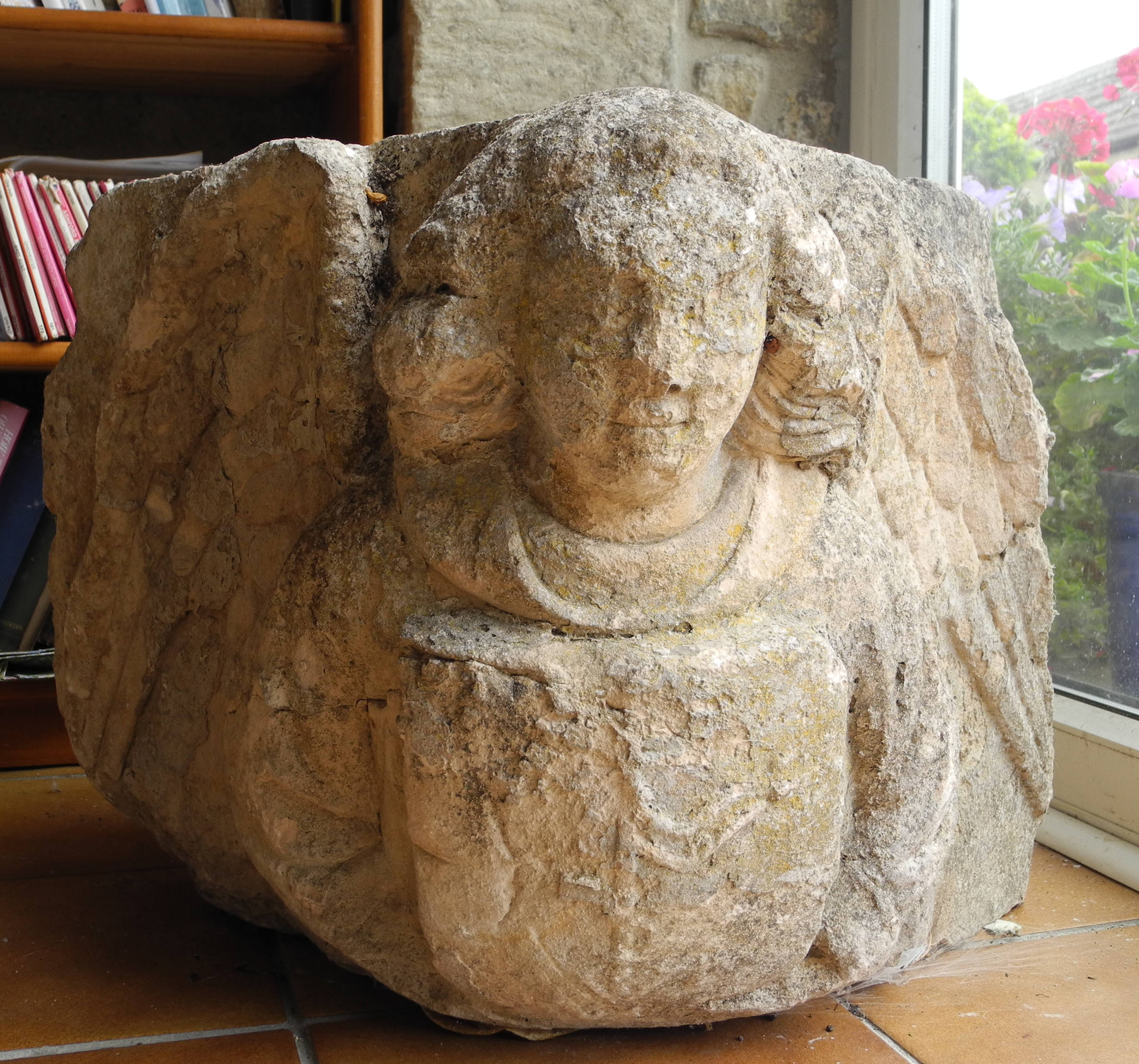 This image is of a carved angel corbel recovered from spoil removed from the archaeological dig of St Botolph's Billingsgate in 1984